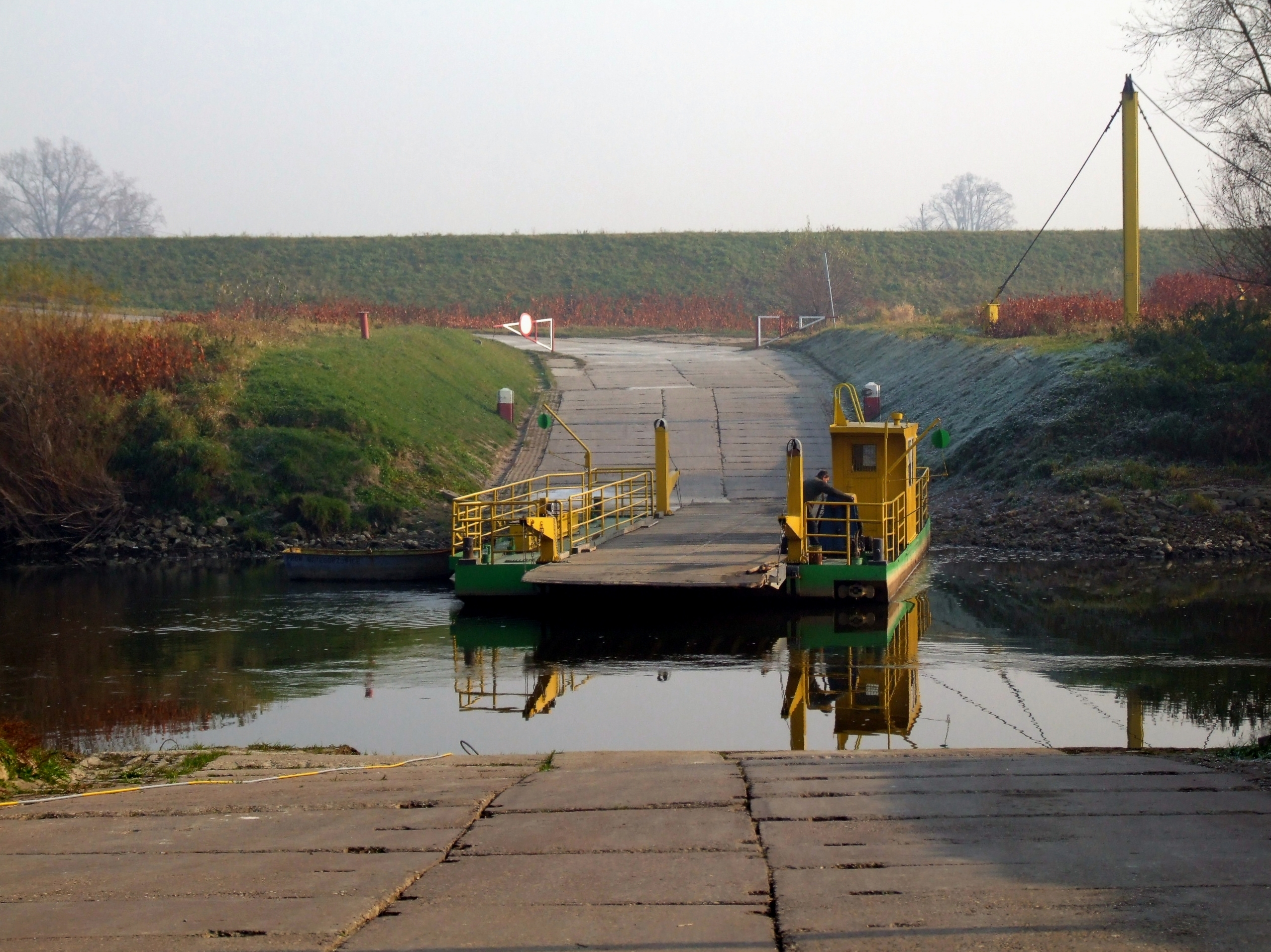 Ferry on the Oder between Grzegorzowice (Gregorsdorf) and Ciechowice (Schichowitz)